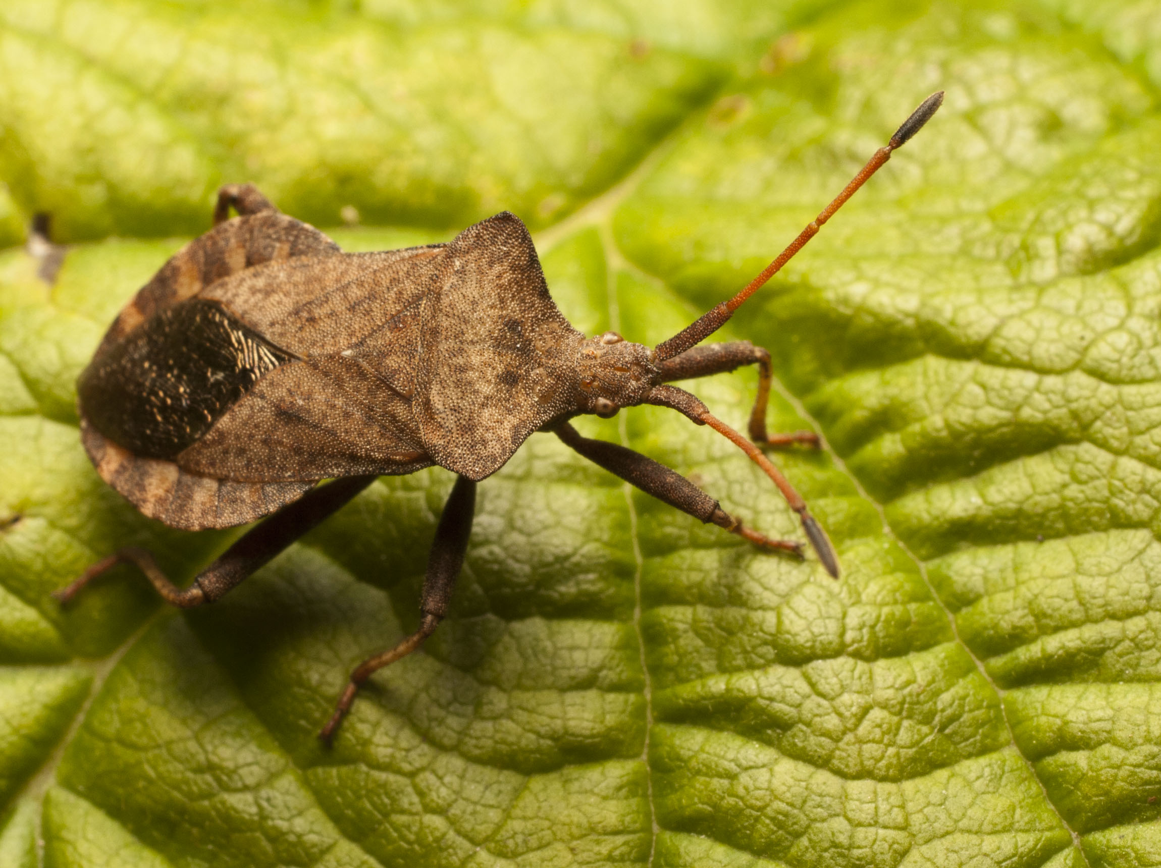 Coreus marginatus